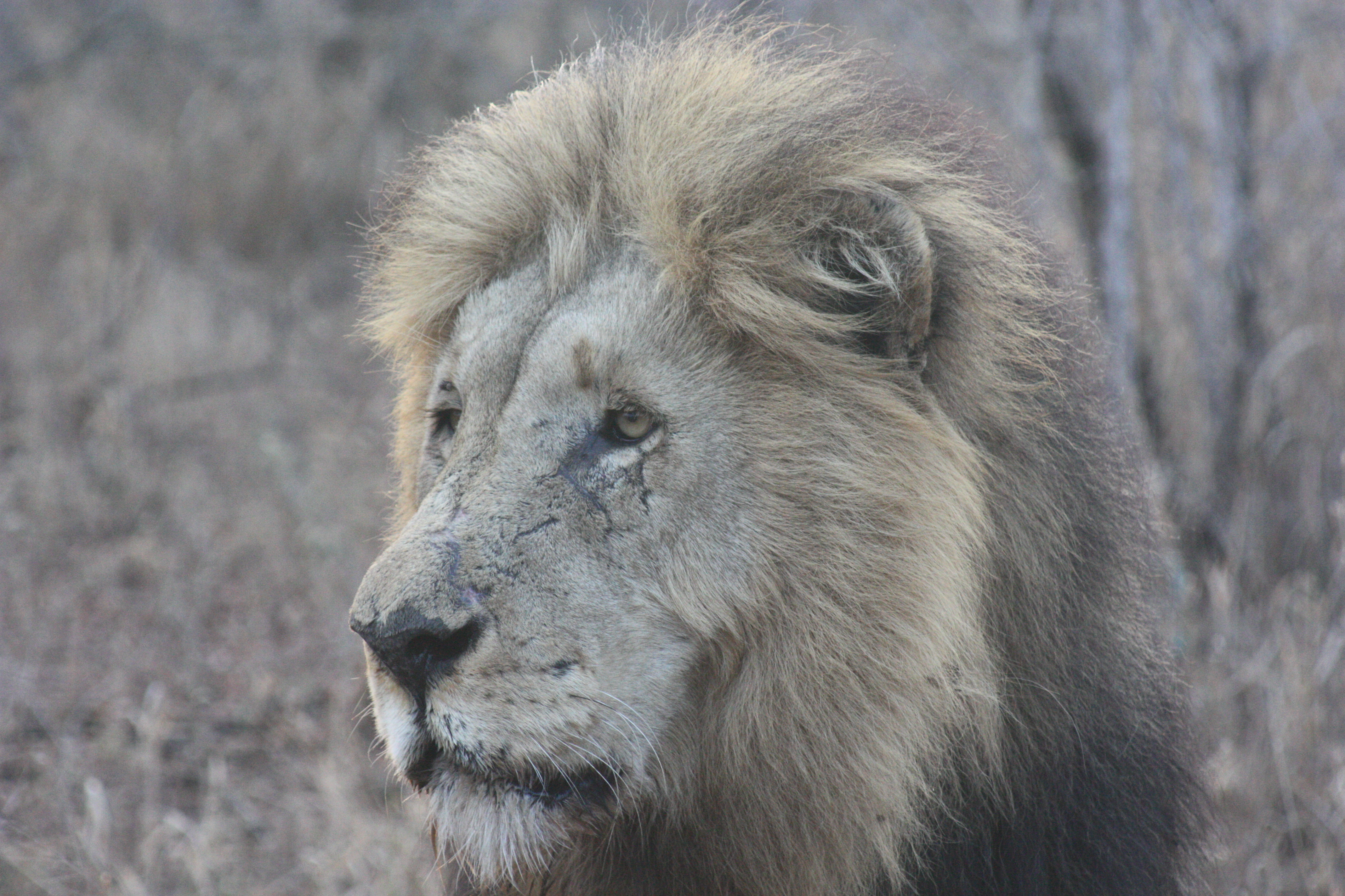 daybreak in kruger park SA Lion